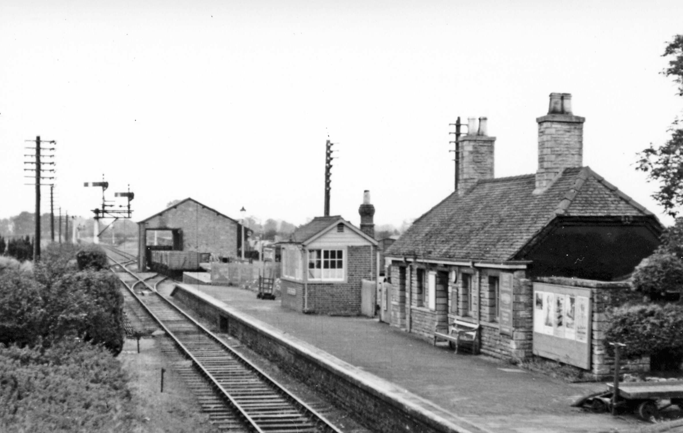 Lechlade station, 1950View from the road bridge, westward towards Fairford on the branch line from Oxford via Witney, closed 18/6/62.